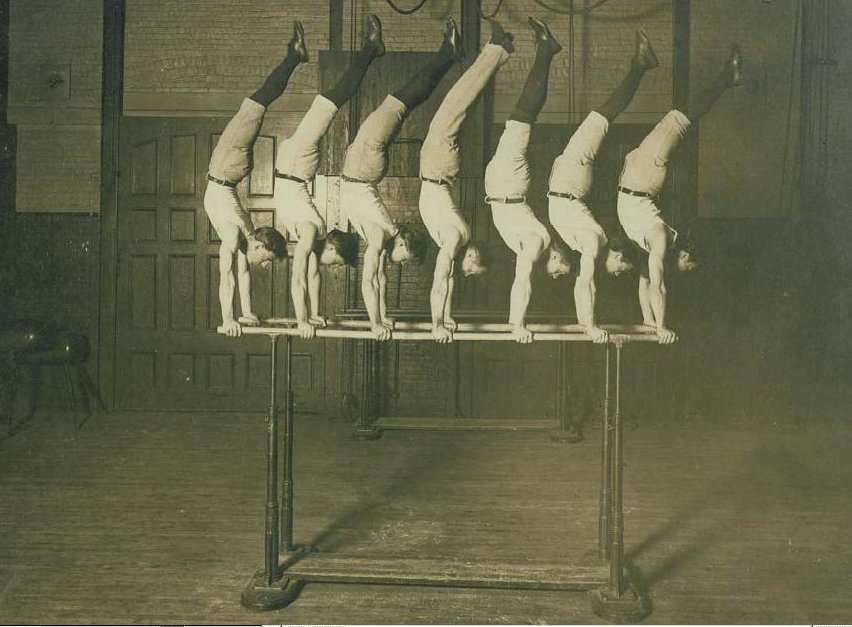 Concordia Turnverein Gymnastic Team, 1908, George Eyser (1871-?) is in the center